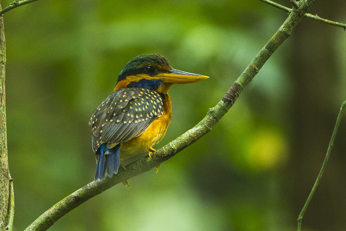 Rufous-collared Kingfisher - Thailand_S4E3779